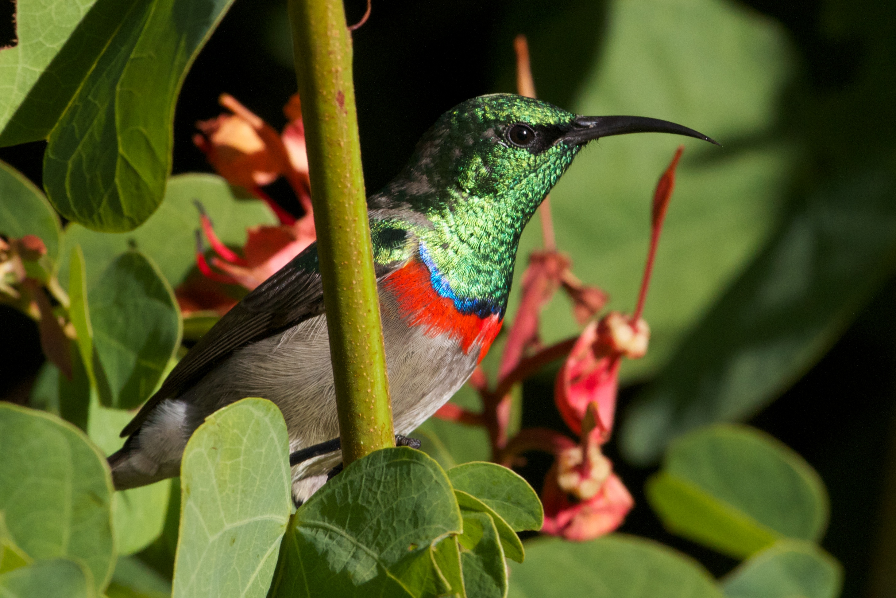 A male Southern Double-collared Sunbird in Cape Town, South Africa.